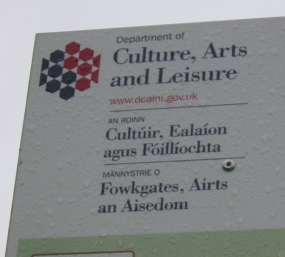 Sign in County Down with Irish and Ulster Scots text